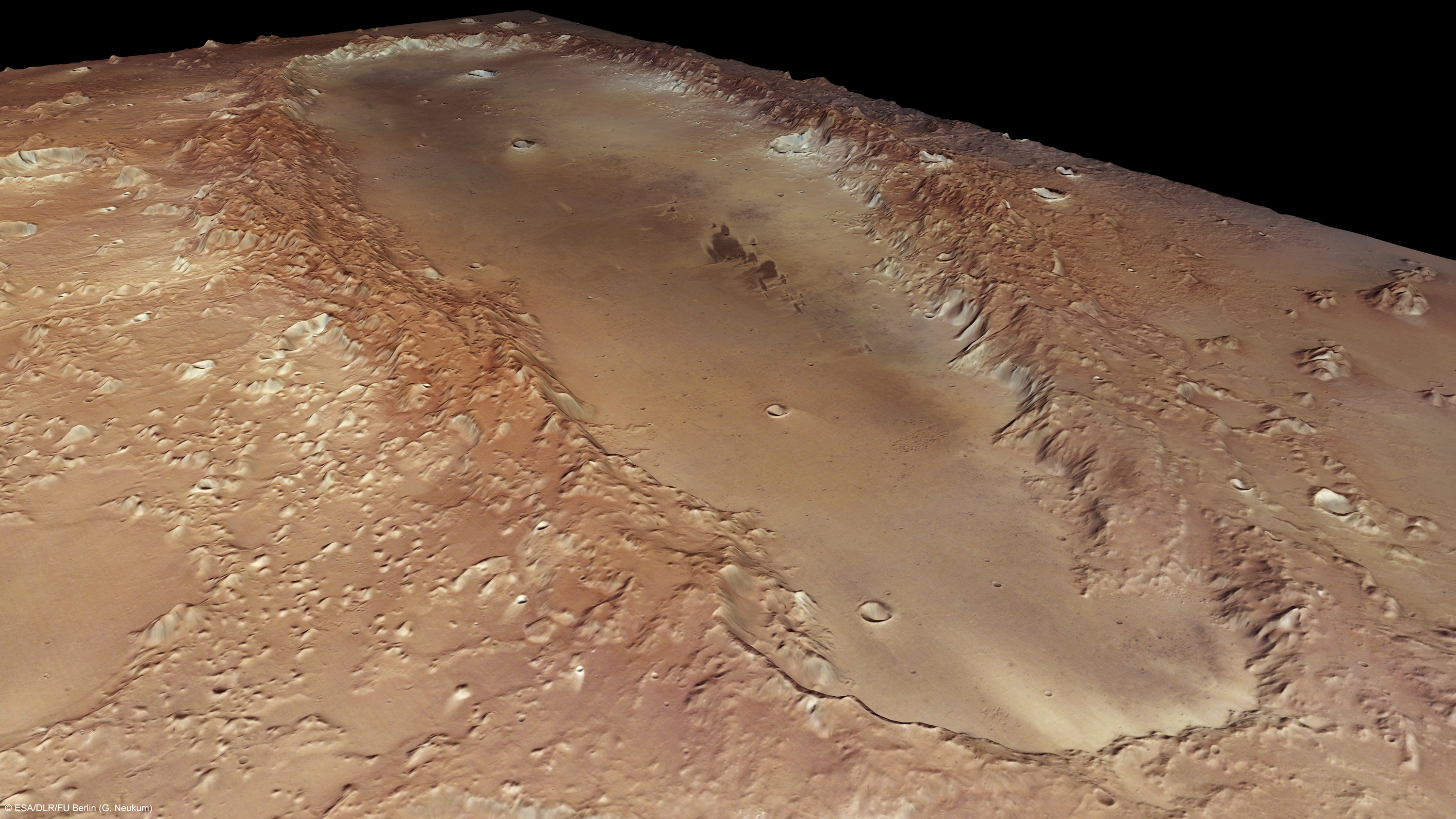 Computer-generated perspective view of Orcus Patera on Mars based on data from Mars Express.